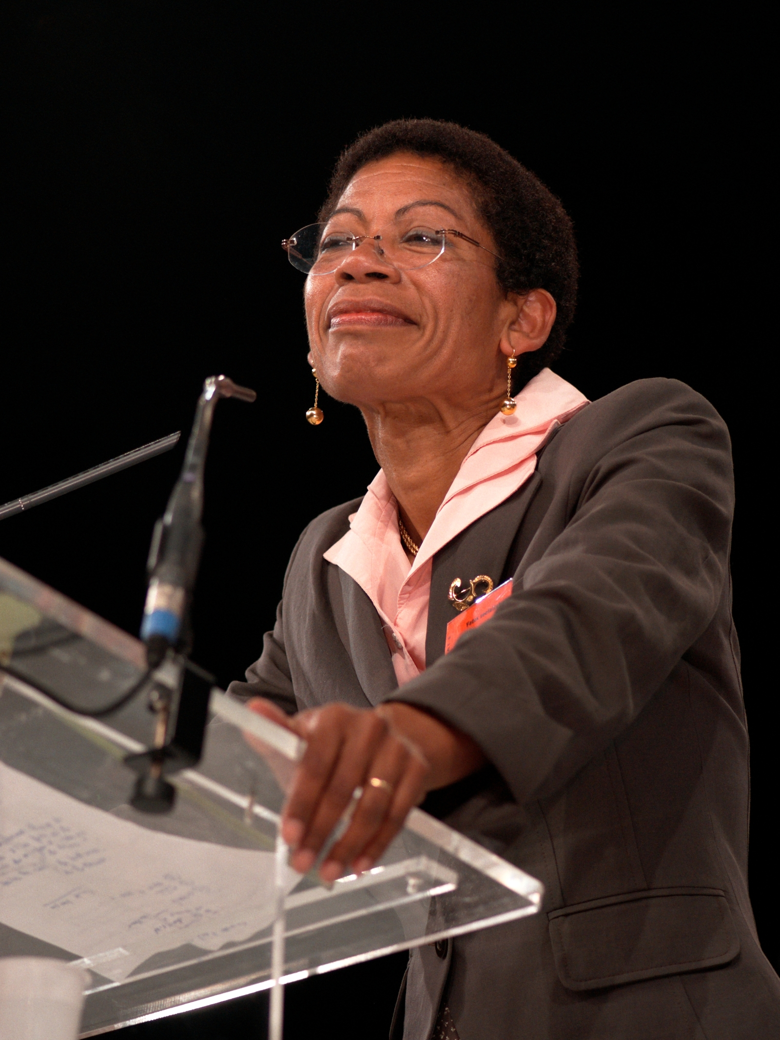 George Pau-Langevin at a political rally held in Paris by the French Socialist Party for the 2007 French legislative elections.